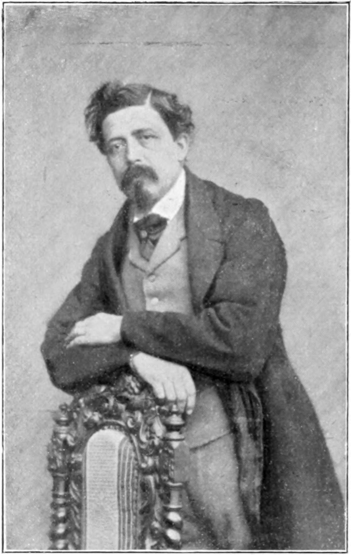 Image from book: Leopoldo Pullè, Patria Esercito Re, Ulrico Hoepli, Milan, 1908. - Benedetto Cairoli